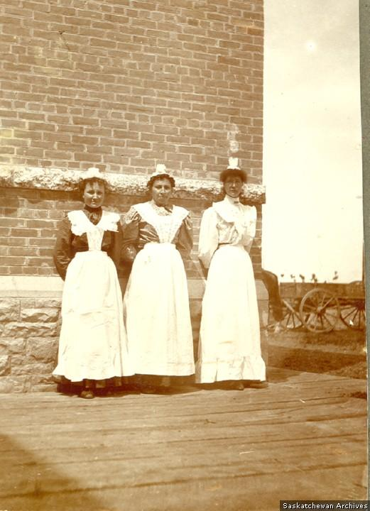 Servants at Government House, Regina, 1989